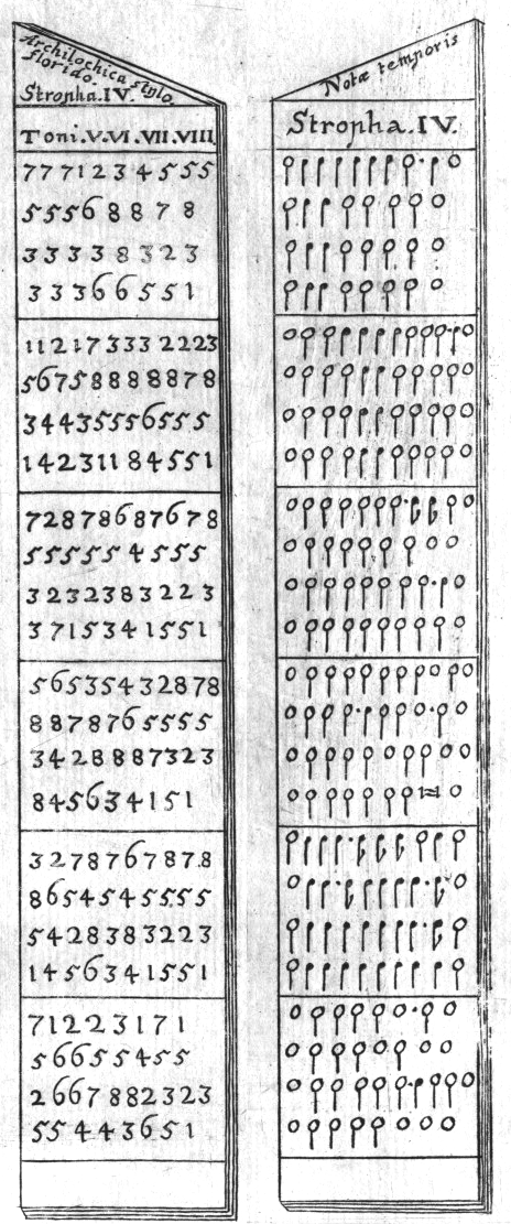 Illustration of musical rods used in the Athanaius Kircher's Organum Mathematicum, illustrated in "Organum Mathematicum" by Gaspar Schott, 1668. Very similar rods were originally used in Kircher's Arca Musarithmica.